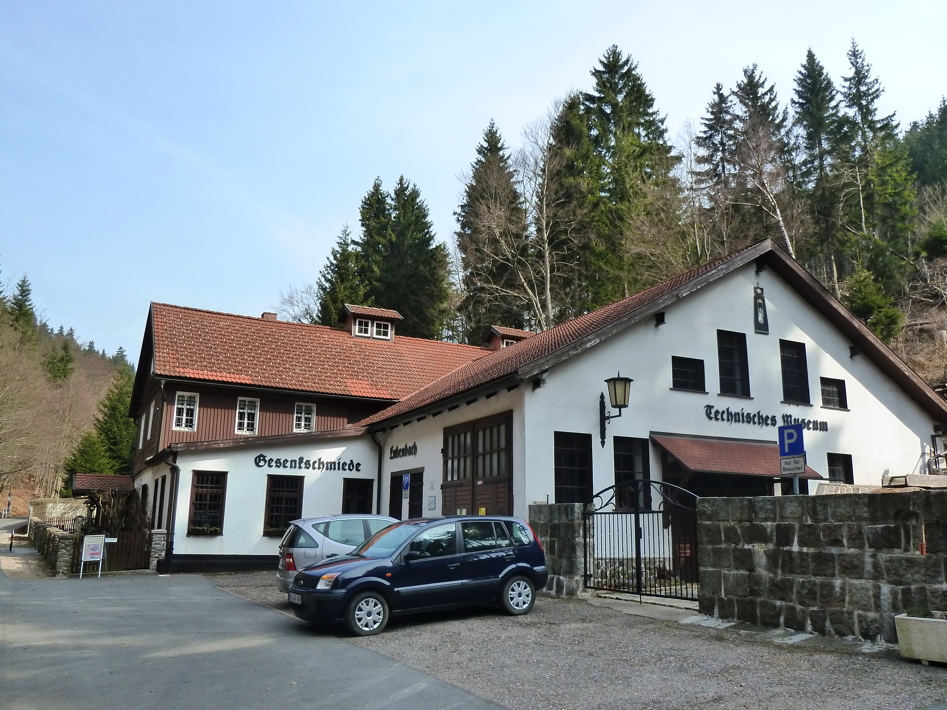 Museum Zella-Mehlis